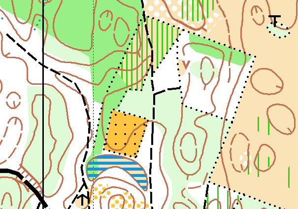 IOF map symbol (414): Example of distinct vegetation boundary